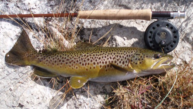 Brown Trout from Mulehole Bend, Firehole River, Yellowstone National Park, Wyoming (Released)